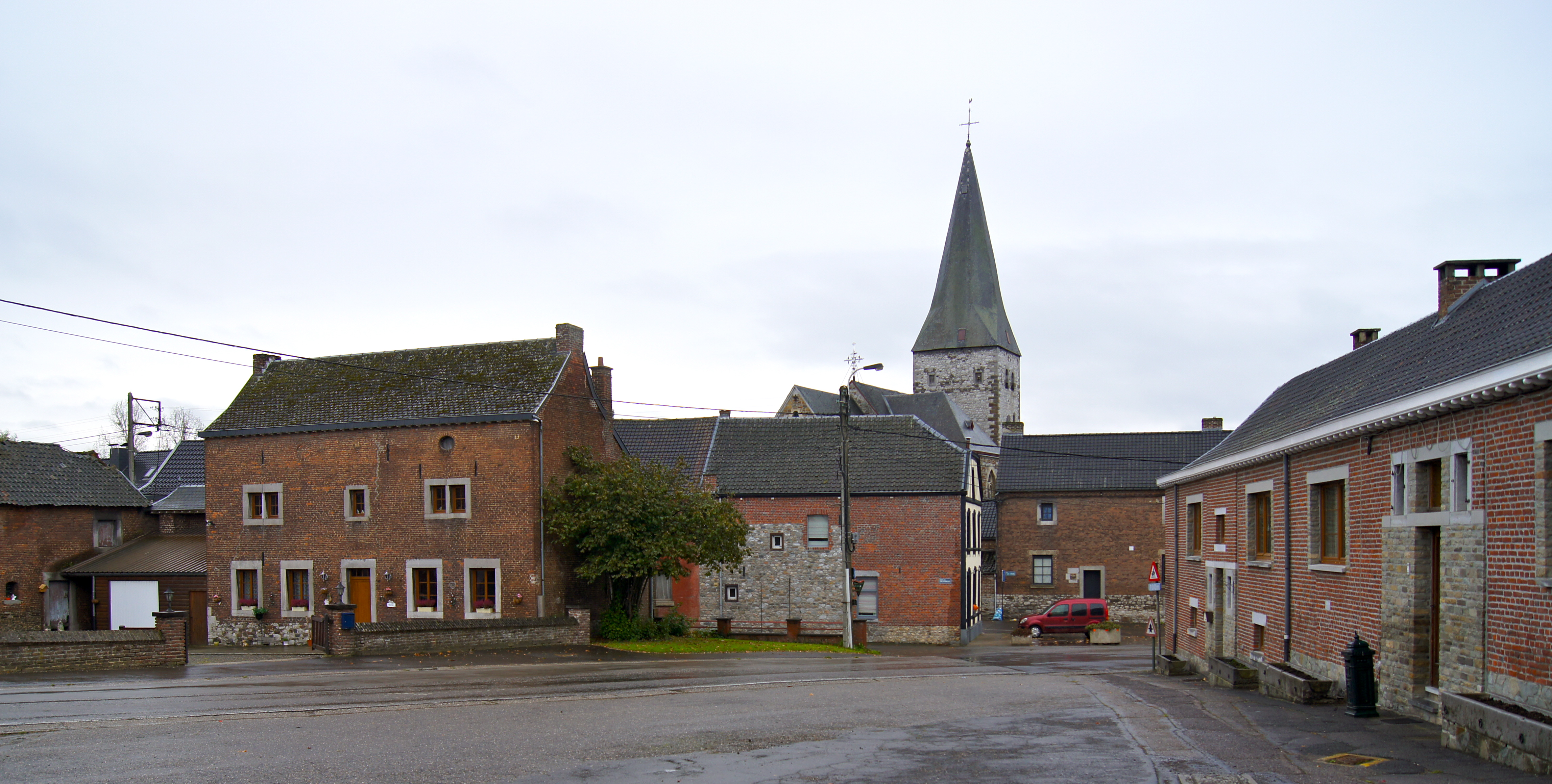 Dalhem (Warsage), Belgium: Panorama